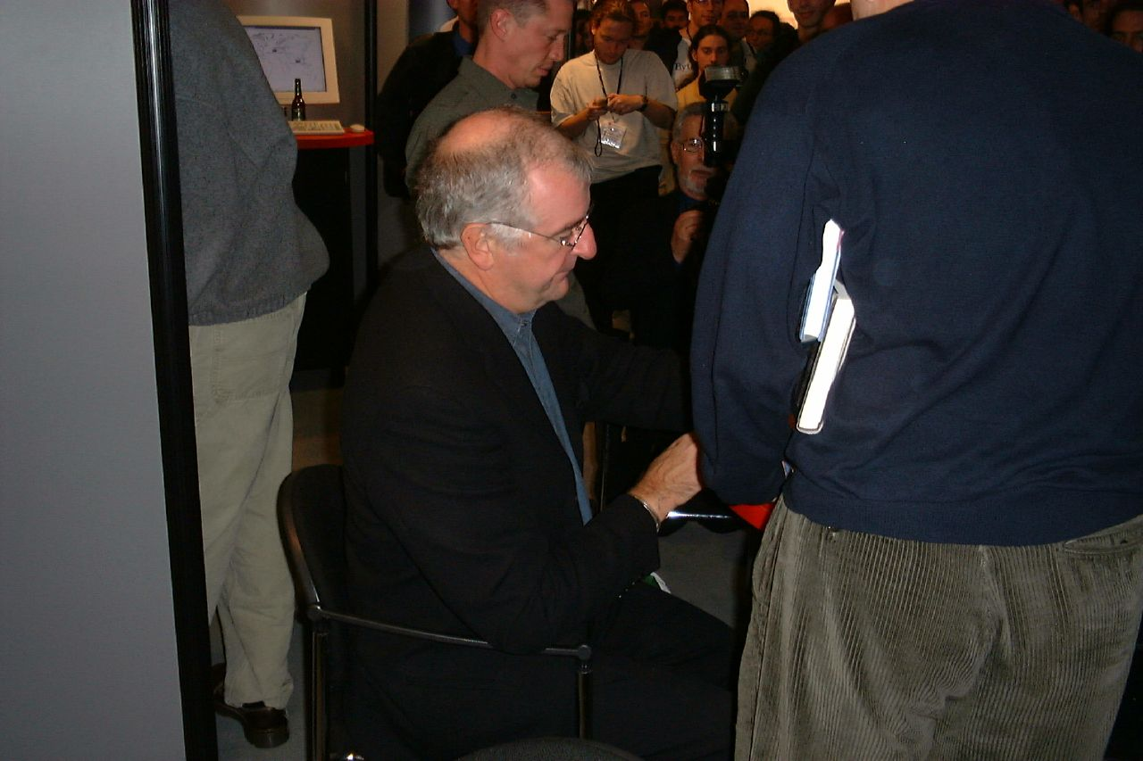 Douglas Adams book signing at ApacheConDouglas Adams